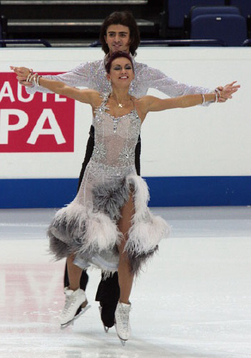 Anna ZADOROZHNIUK & Sergei VERBILLO (UKR) at the 2009 European Figure Skating Championships. CD - Finnstep